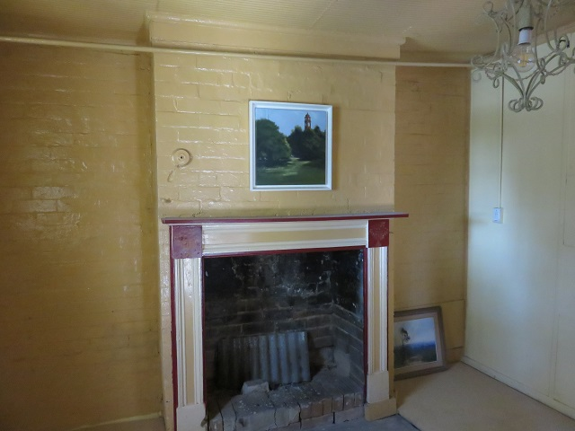 Caroline Chisholm Cottage